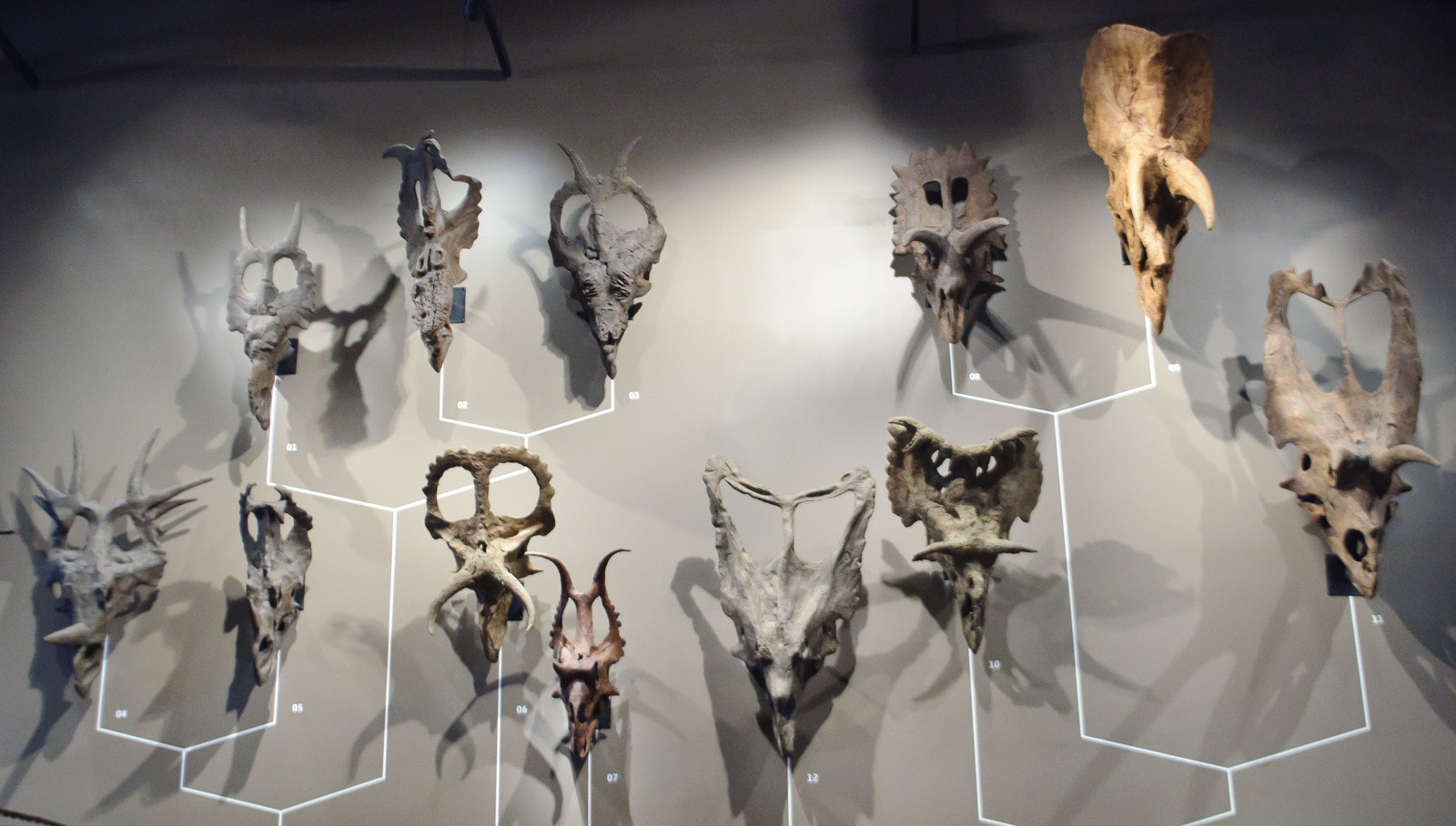 The Natural History Museum of Utah, located on the University of Utah campus at its new Rio Tinto Building home, is best known for its excellent collection of fossils (especially dinosaur fossils) as well as emphasis on the place of humans in the greater ecosystem. Skulls of horned herbivore dinosaurs.